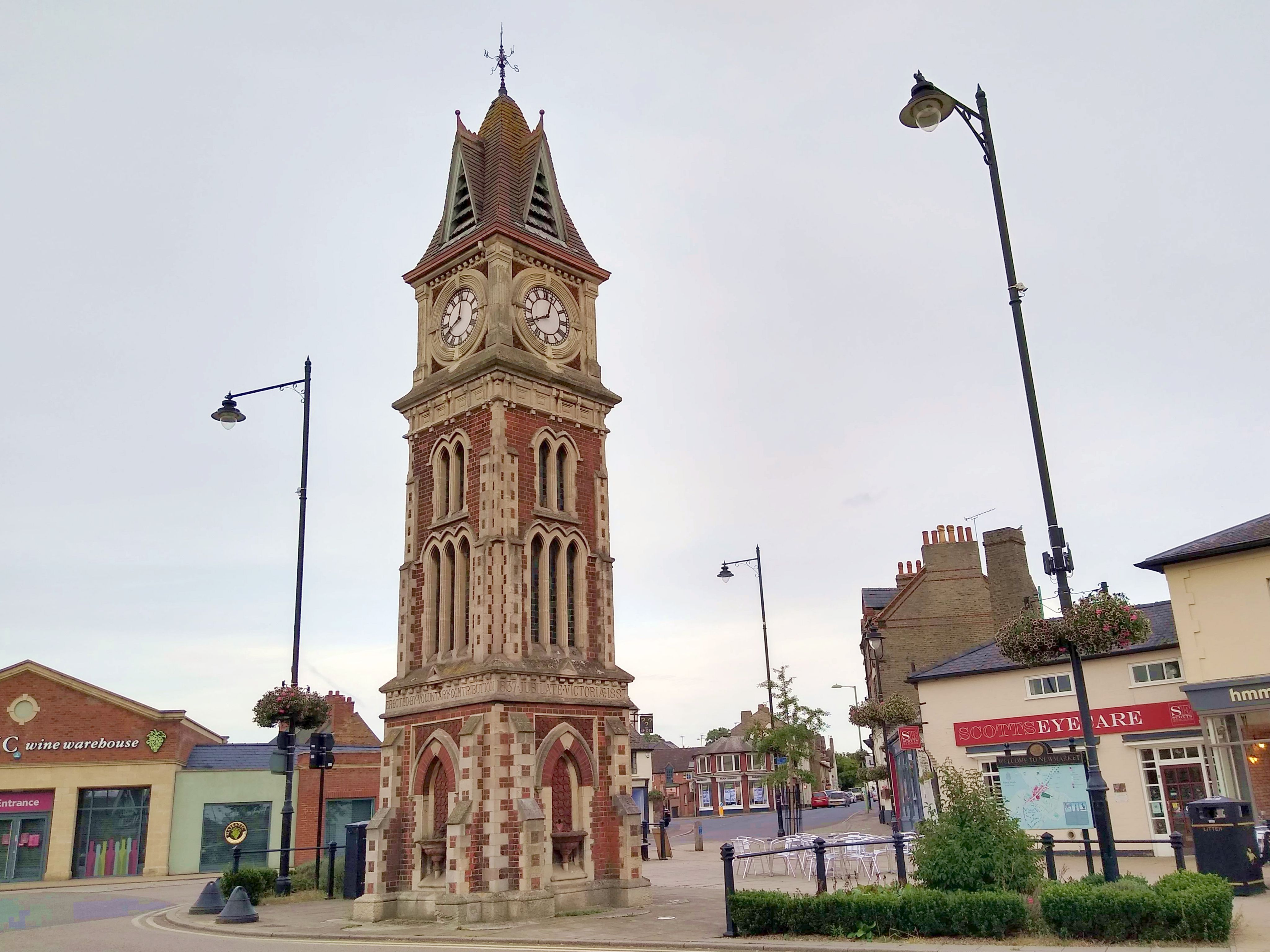 Newmarket Clock Tower in July 2019.